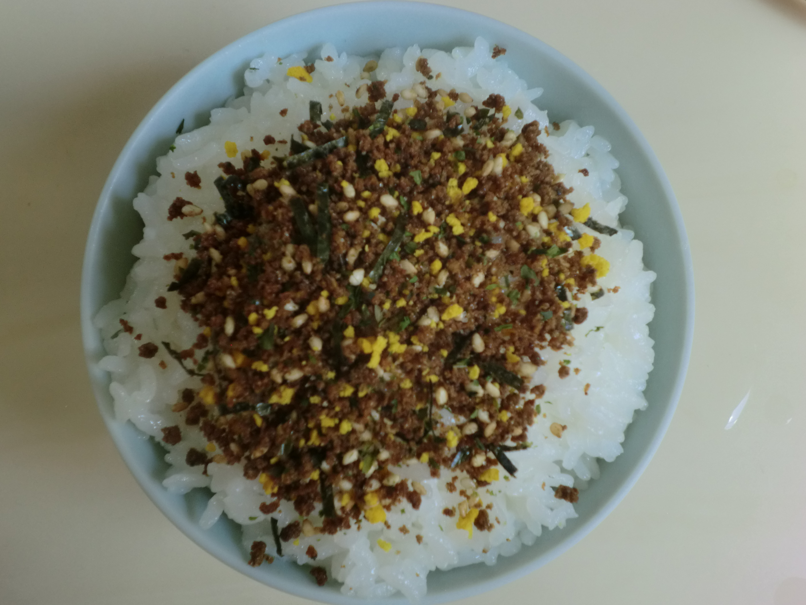 Japanese Furikake(condiment for rice) "Ryoko no tomo"(Friend of travel)